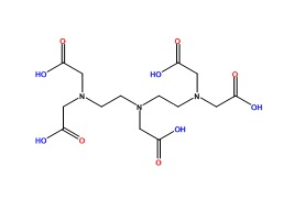 Figure 1